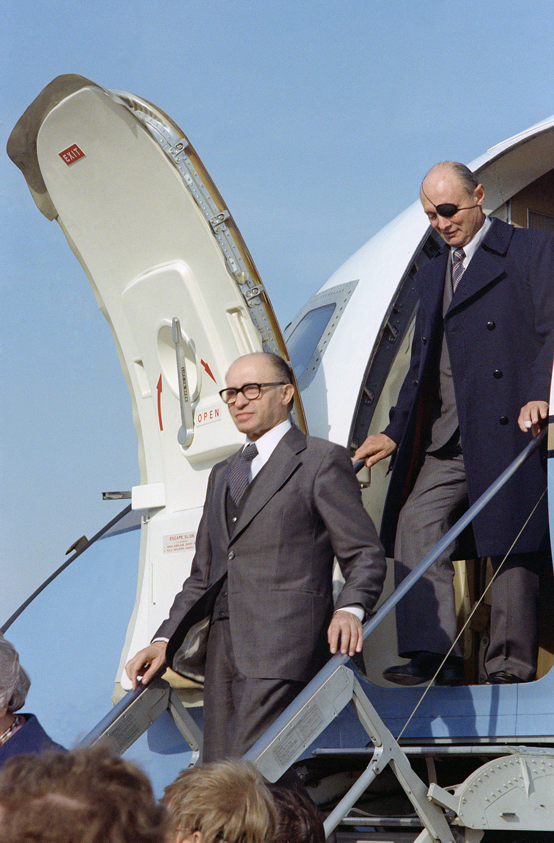 Israeli Prime Minister Menachem Begin (front) exits from the aircraft upon his arrival in the United States. He is accompanied by Israeli Foreign Minister Moshe Dayan (rear). Location: Andrews Air Force Base, Maryland (MD), United States of America (USA)